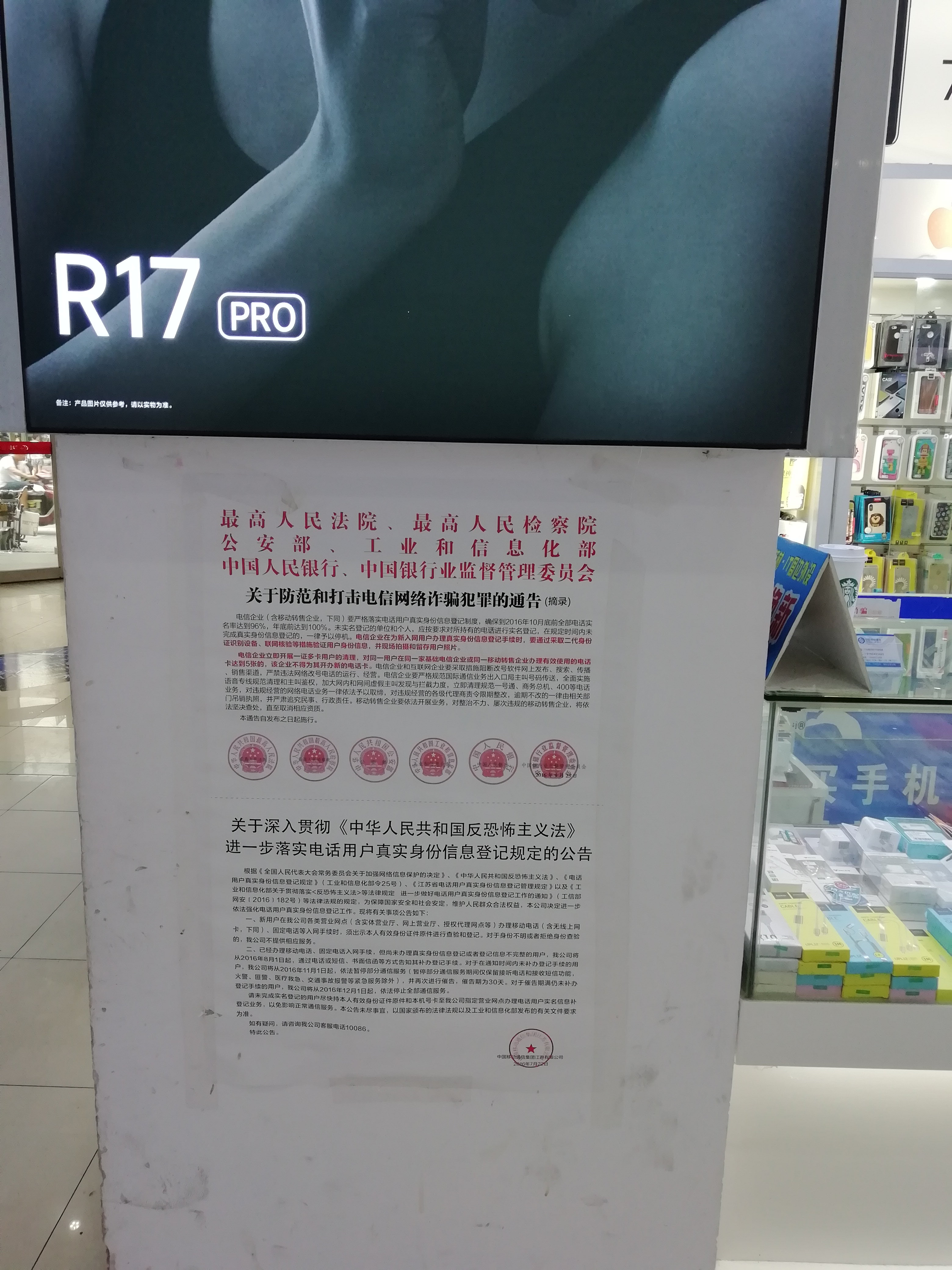 A mobile phone real-name notice, taken in Suzhou, China 中文（中国大陆）: 中国江苏省苏州市的手机实名制实施通告